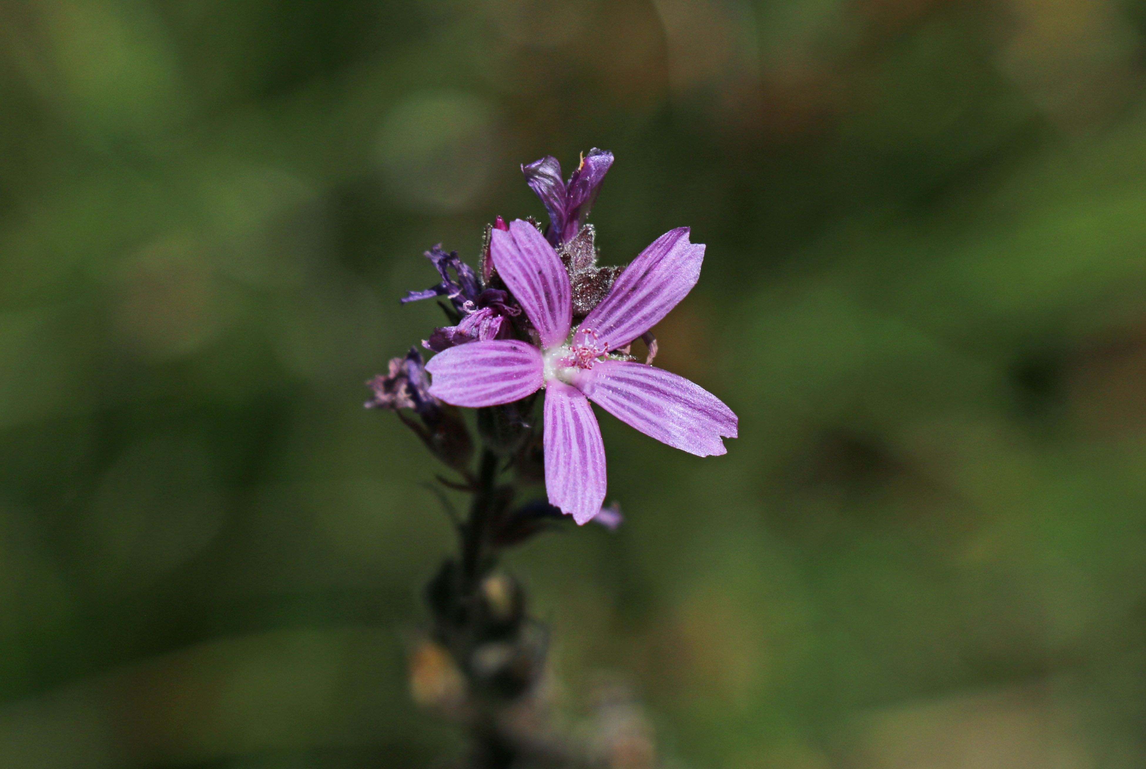 Photo by Joanna Gilkeson/USFWS.